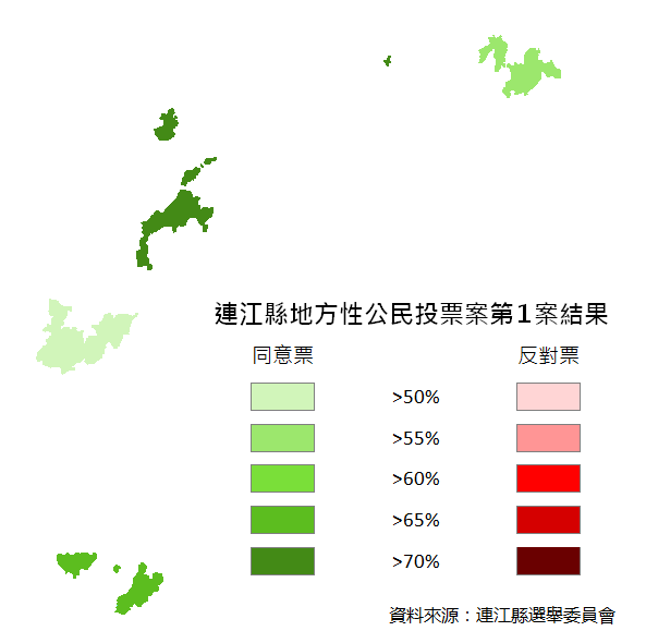 The results of the 2012 Matsu Referendum of Taiwan 中文（台灣）: 2012年中華民國福建省連江縣博弈公民投票結果。